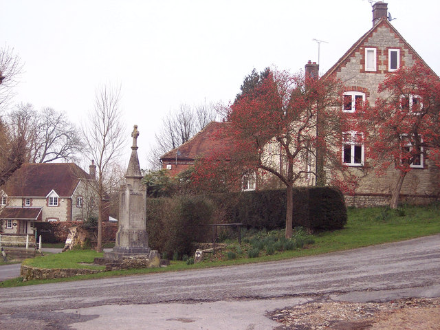 War Memorial and Manor House, Buriton The manor house was built in the 1500s with additions in 1730.